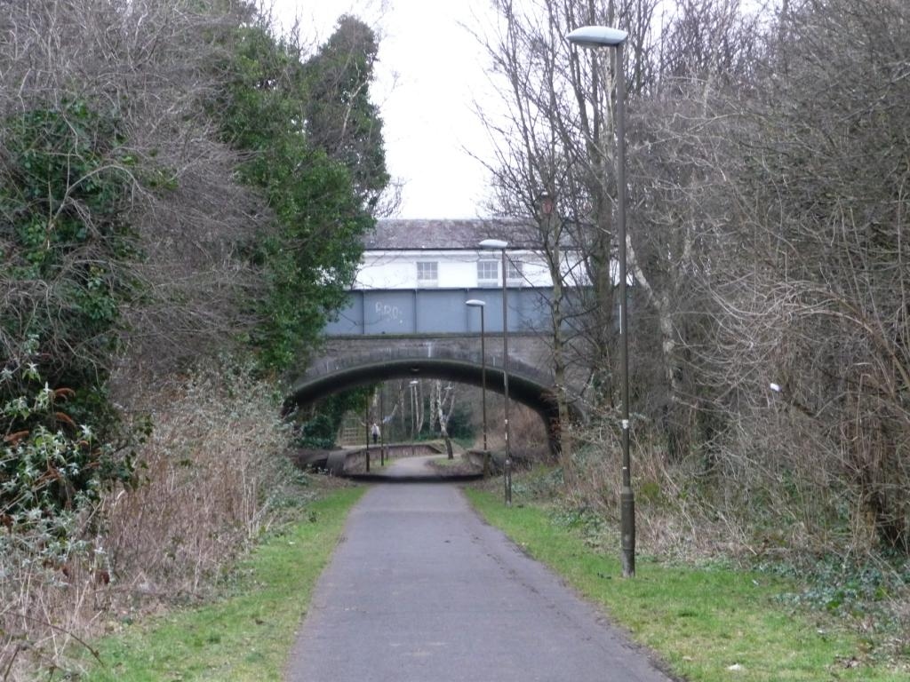 Pinkhill Station from the west